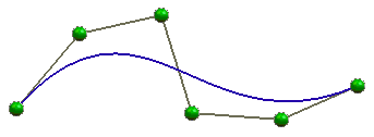 Cropped, static version of Spline01.gif... Created by myself.